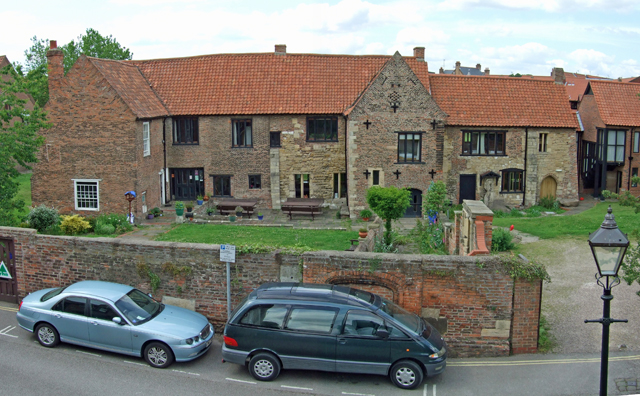 Beverley Friary, Beverley, East Riding of Yorkshire, England.Pevsner says "This restored building, used as a YHA hostel since 1984. is a significant remnant of a wealthy Dominican Friary established in Beverley in 1204. Such surviving medieval friary buildings are not common.." It was dissolved in 1539.